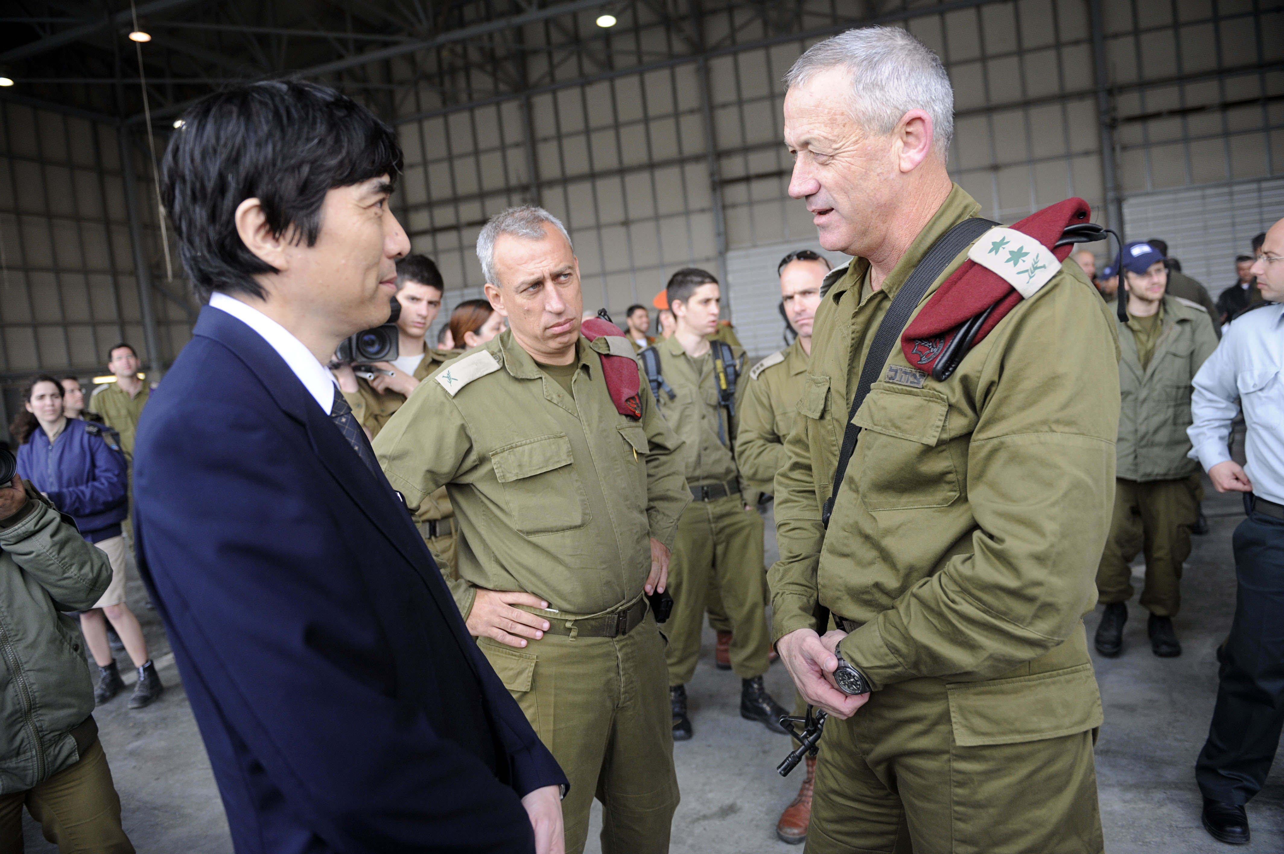 April 12, 2011 Today, the IDF aid delegation to Japan landed at the Nevatim air force base and was received with a ceremony headed by the Chief of the General Staff, Lt. Gen. Benny Gantz, the GOC Home Front Command, Maj. Gen. Yair Golan, and the IDF Surgeon General, Brig. Gen. Dr. Nachman Ash. Pictured here: The Japanese Ambassador to Israel Mr. Haruhisa Takeuchi chats with Chief of Staff Lt. Gen. Gantz as Surgeon General Brig. Gen. Dr. Nachman Ash observes. היום (ג') נחתה משלחת הסיוע של צה"ל ליפן בבסיס חיל האוויר בנבטים והתקבלה בטקס במעמד ראש המטה הכללי, רב אלוף בני גנץ, מפקד פיקוד העורף, אלוף יאיר גולן וקצין הרפואה הראשי, תת אלוף ד"ר נחמן אש